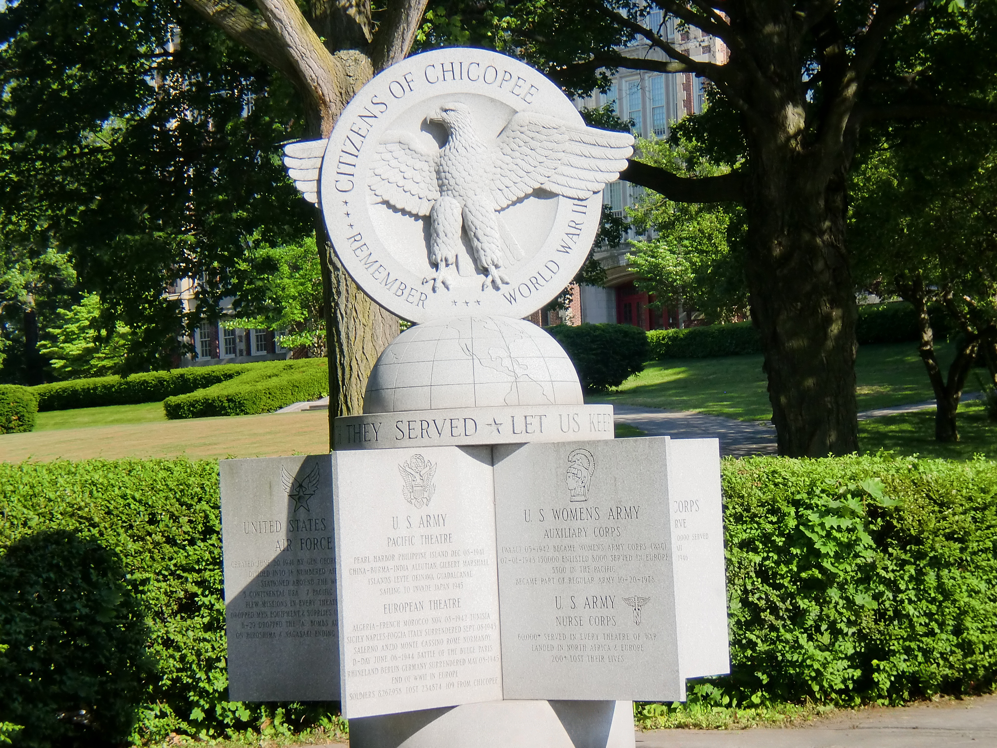 Chicopee's World war II Memrial